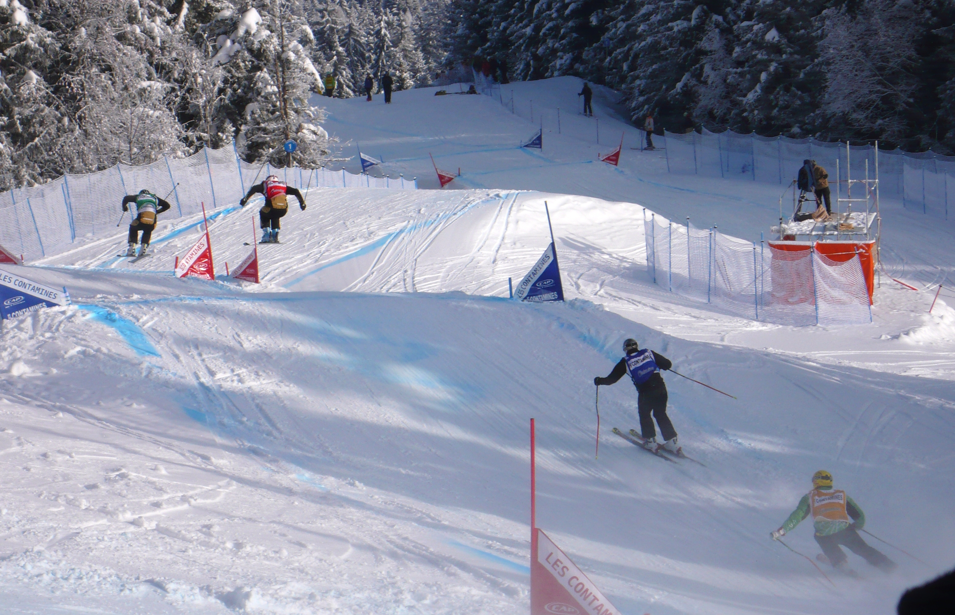 Ski Cross World Cup at Les Contamines-Montjoie, 1/8 final: Enak Gavaggio, Xavier Kuhn, Martin Fiala, Errol Kerr.